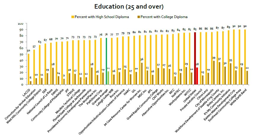 This graph shows education levels in PUMAs served by POP grantees, according to the 2009 American Community Survey 1-Year estimates. For PUMAs served by more than one POP grantee, education levels were averaged across all served PUMAs.